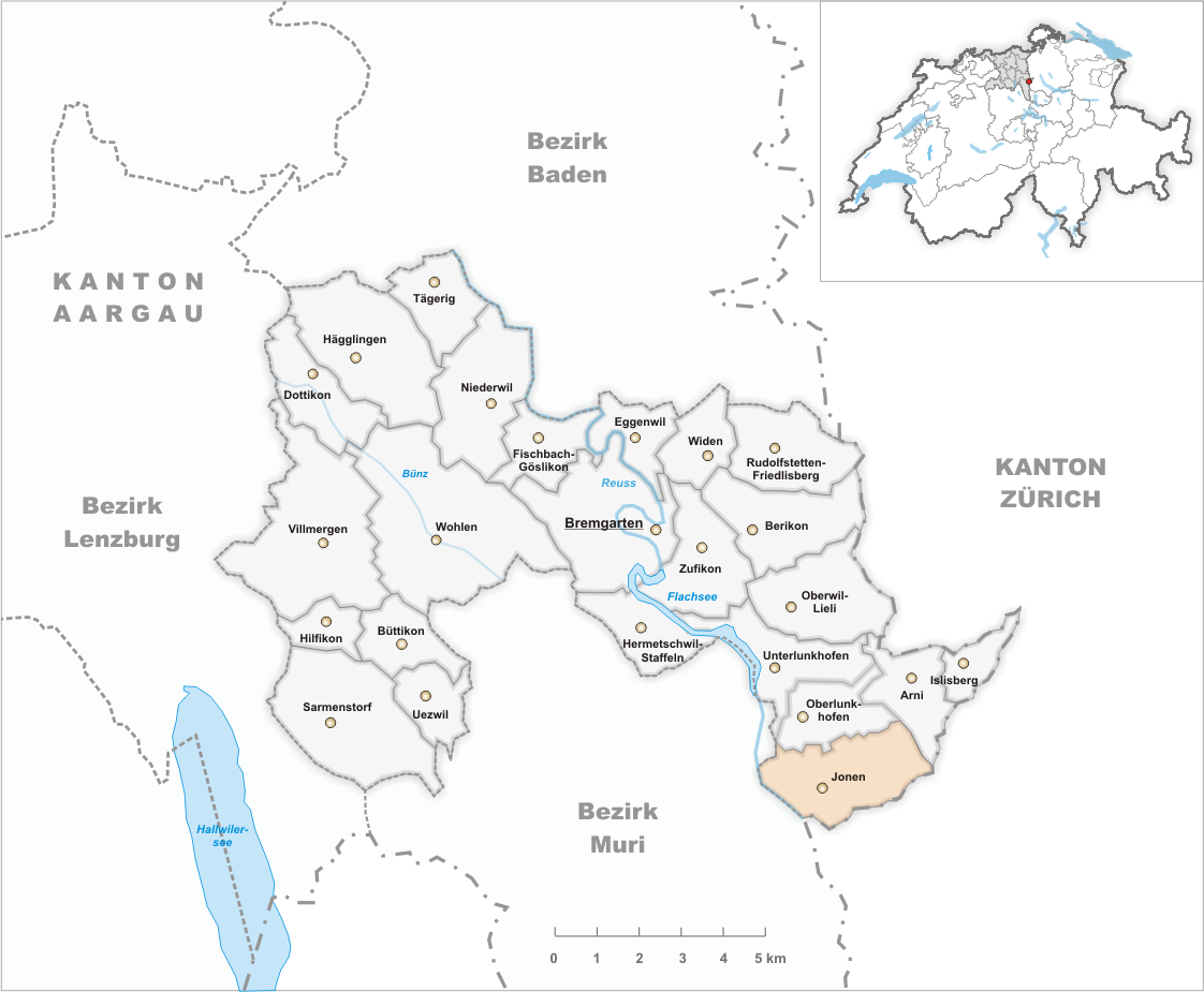 Municipality Jonen